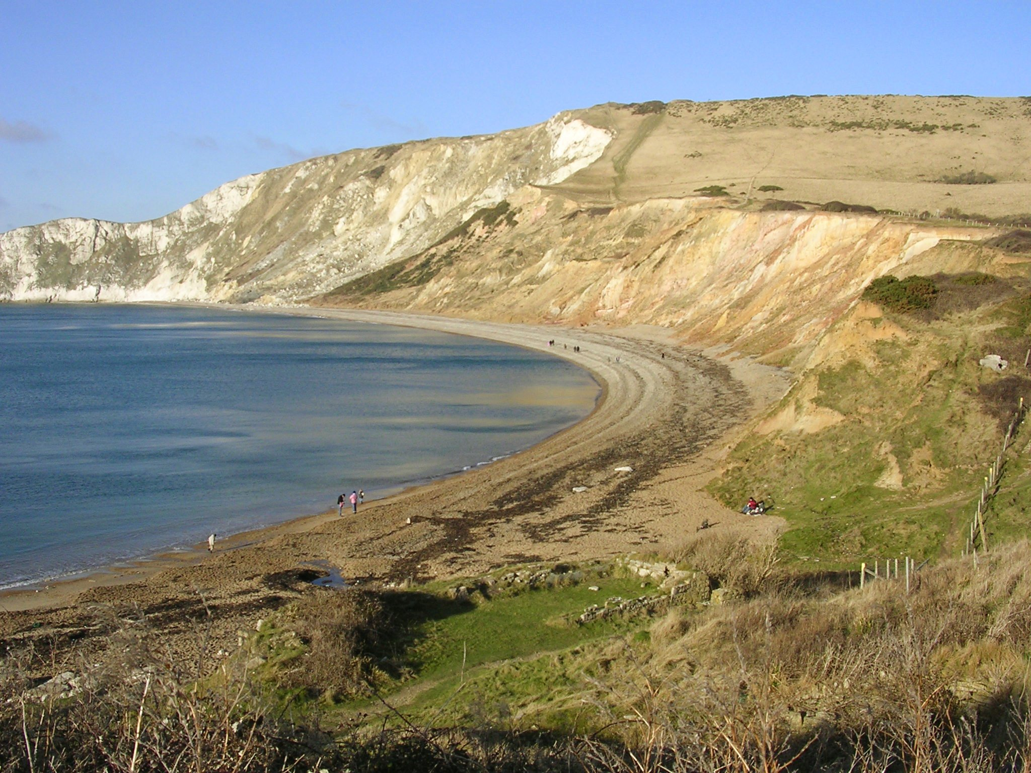 Worbarrow Bay beach, with Flower's Barrow in the background